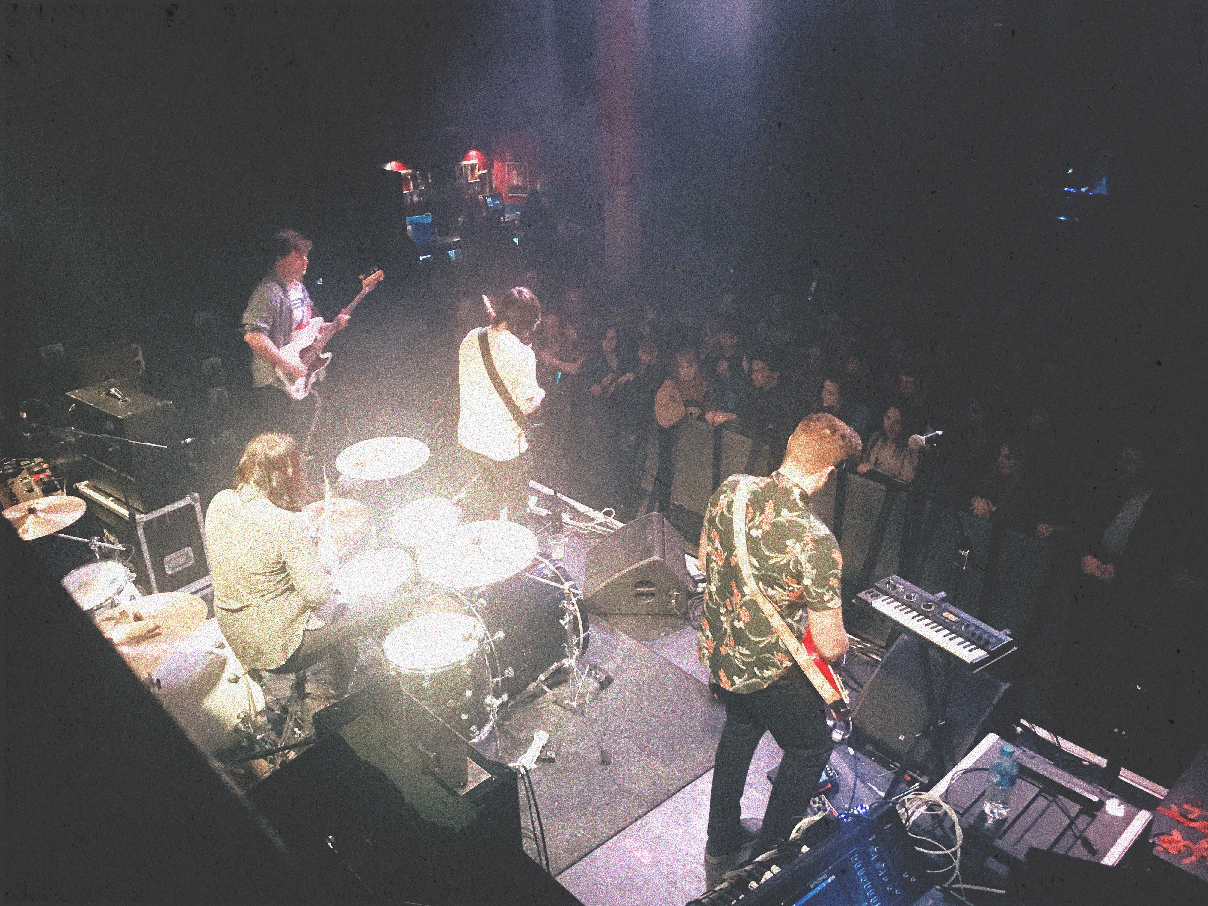 The Cheap Thrills performing live at Liverpool's Arts Club